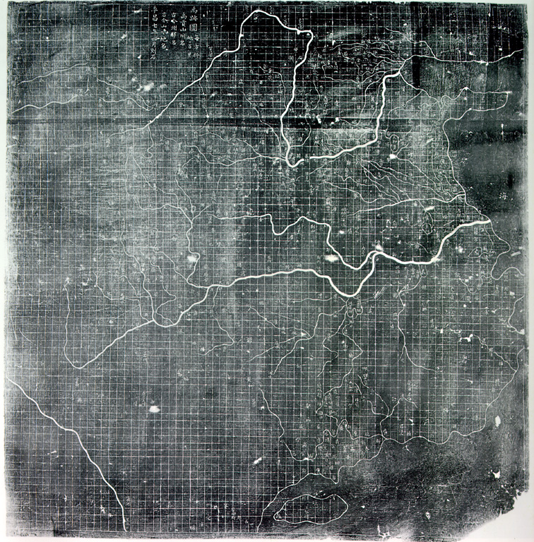 The Chinese Yu Ji Tu (Map of the Tracks of Yu the Great), a map carved into stone in the year 1137 during the Song Dynasty, located in the Stele Forest of modern-day Xian, China. Yu the Great refers to the Chinese deity described in the Chinese geographical work of the Yu Gong, a chapter of the Classic of History. Needham and Chavannes assert that the original map must have predated the 12th century. The graduated scale of this gridded map is at 100 li (Chinese mile) squared for every representative square in the grid. The overall size of the map is 3 ft squared. The coastal outline is relatively firm and the precision of the network of river systems is incredibly accurate. The name of the geographers and cartographers who initially created the map are unknown. In the year 1142 a copy of the map was preserved at Zhenjiang in Jiangsu province by a certain Yu Chi, who was then a Prefectural Director of Studies. There is also mention of an earlier copy of about 1100 AD which itself was based on the Chang'an version. Needham asserts that the map was used primarily to instruct students while referring to sites described in the ancient Yu Gong chapter of the Classic of History. This image is taken from Joseph Needham's Science and Civilization in China: Volume 3, Mathematics and the Sciences of the Heavens and the Earth, on the page PLATE LXXXI, as well as described on pages 547 to 549 (hardback copy). I, PericlesofAthens, took the photo of this public domain image.